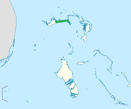 Location map of the Bahamas Equirectangular projection, N/S stretching 105 %. Geographic limits of the map: * N: 27.5° N * S: 20.7° N * W: 80.7° W * E: 70.8° W